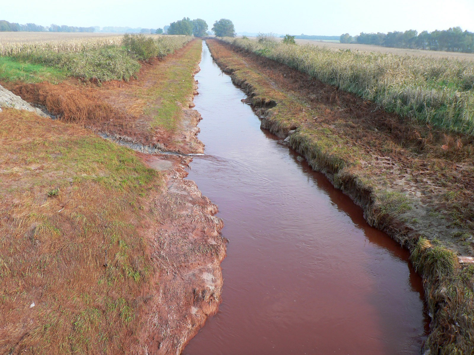 A Torna-patak Somlóvásárhelynél, tíz nappal a 2010. október 4-i vörösiszap-katasztrófa után